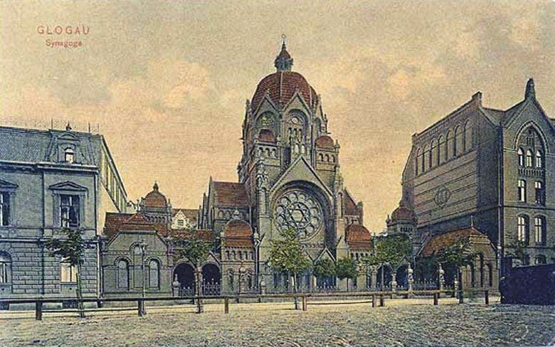 synagogue of Glogau (1892-1938) destroyed by the nazis during the Kristal Nacht